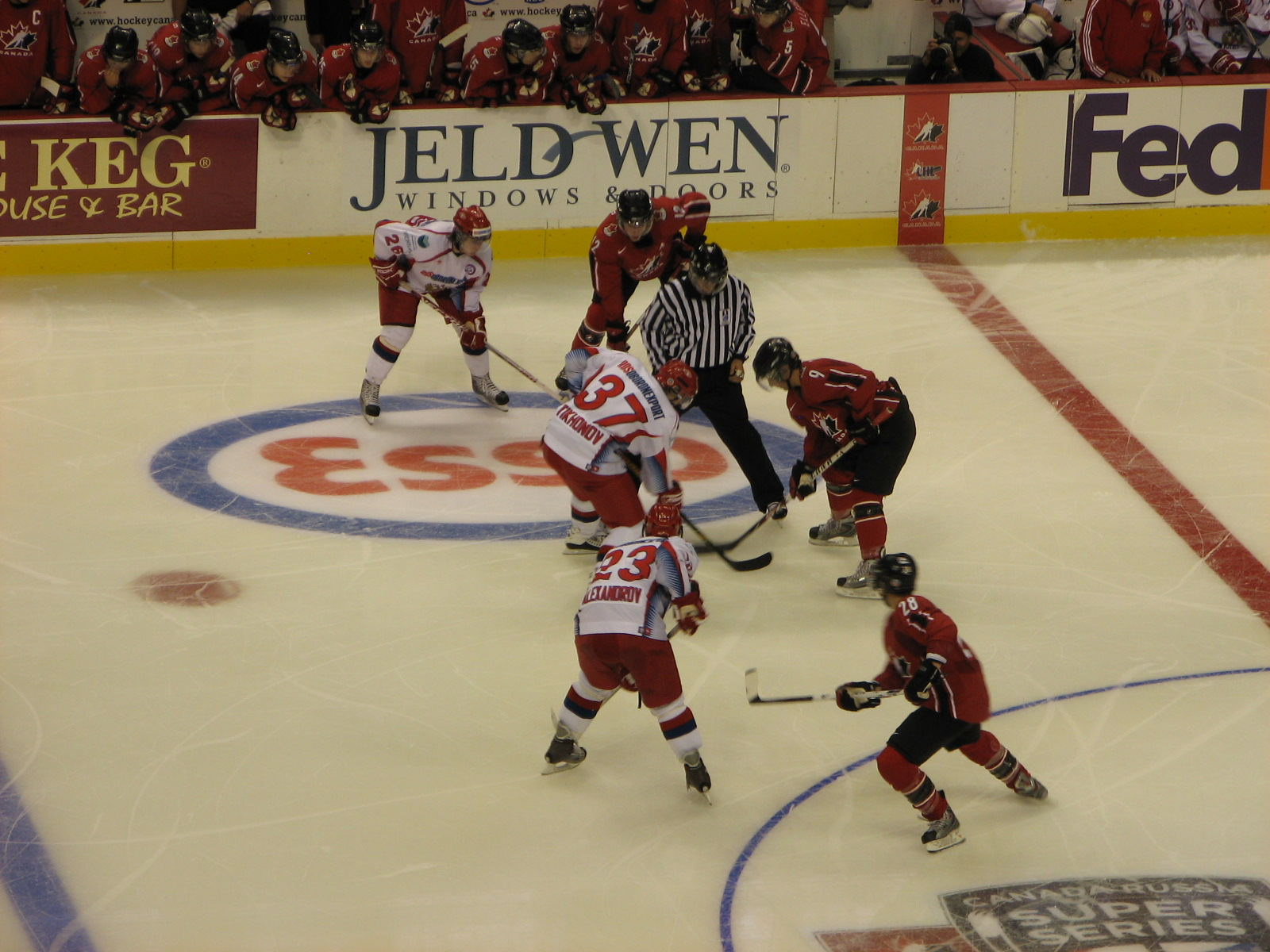 Super Series 2007, Game 8 at General Motors Place